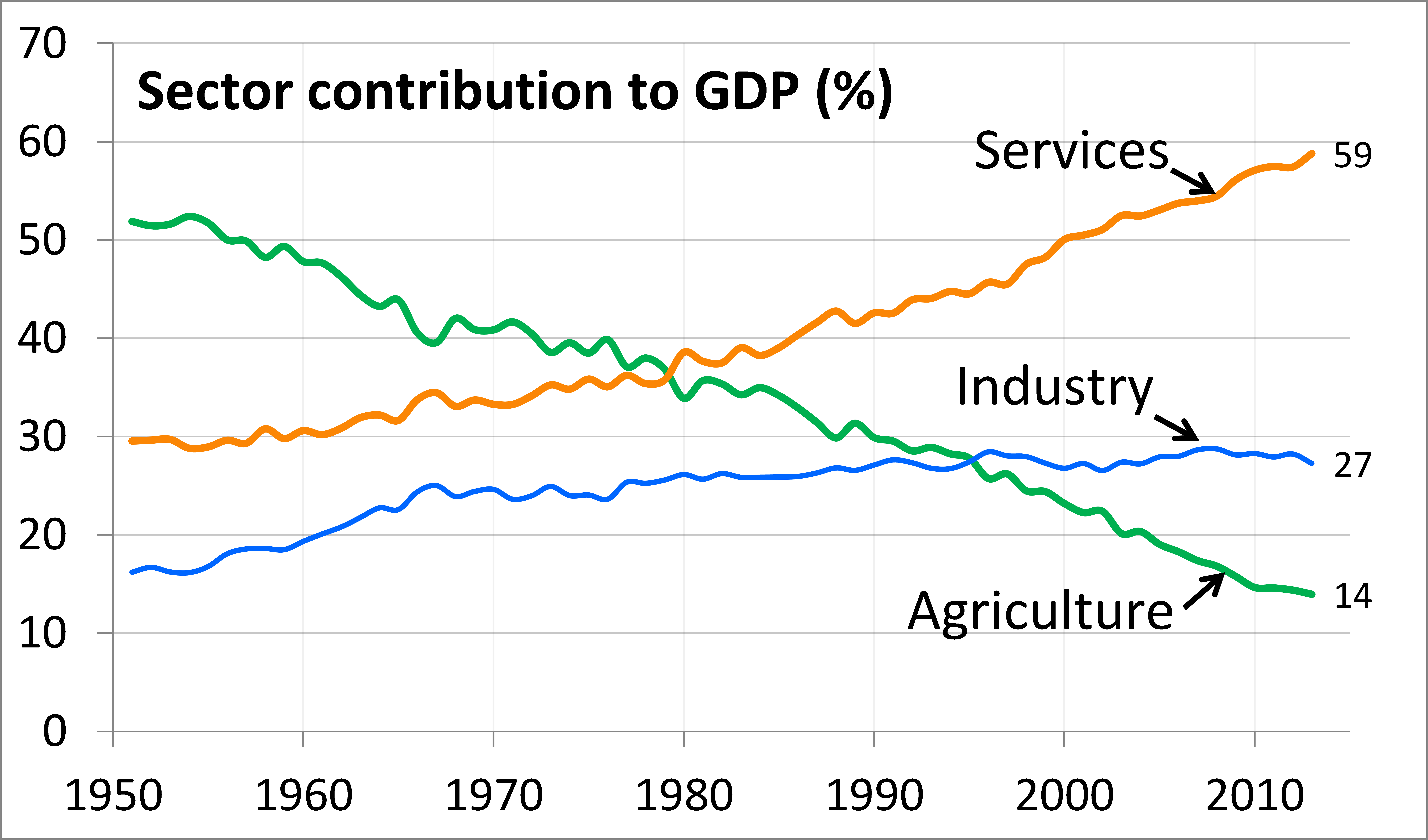 The chart shows how India's economy has evolved over 62 years, that is from 1951 to 2013 while its economy and population has grown. The % contribution of agriculture, industry and services to its GDP for every year is shown in this chart in constant 2004-2005 prices (inflation adjusted). Agriculture made the largest contribution to India's economy in 1951 (52%), while services sector made the largest %GDP contribution in 2013 (59%). Data Source: Table 3 in GDP at Factor Cost at 2004-05 Prices, Share to Total GDP Databook, Planning Commission, Government of India (July 3 2014), pages 3-4. Note: India classifies software, IT, communications and such economic activity in its Services sector.